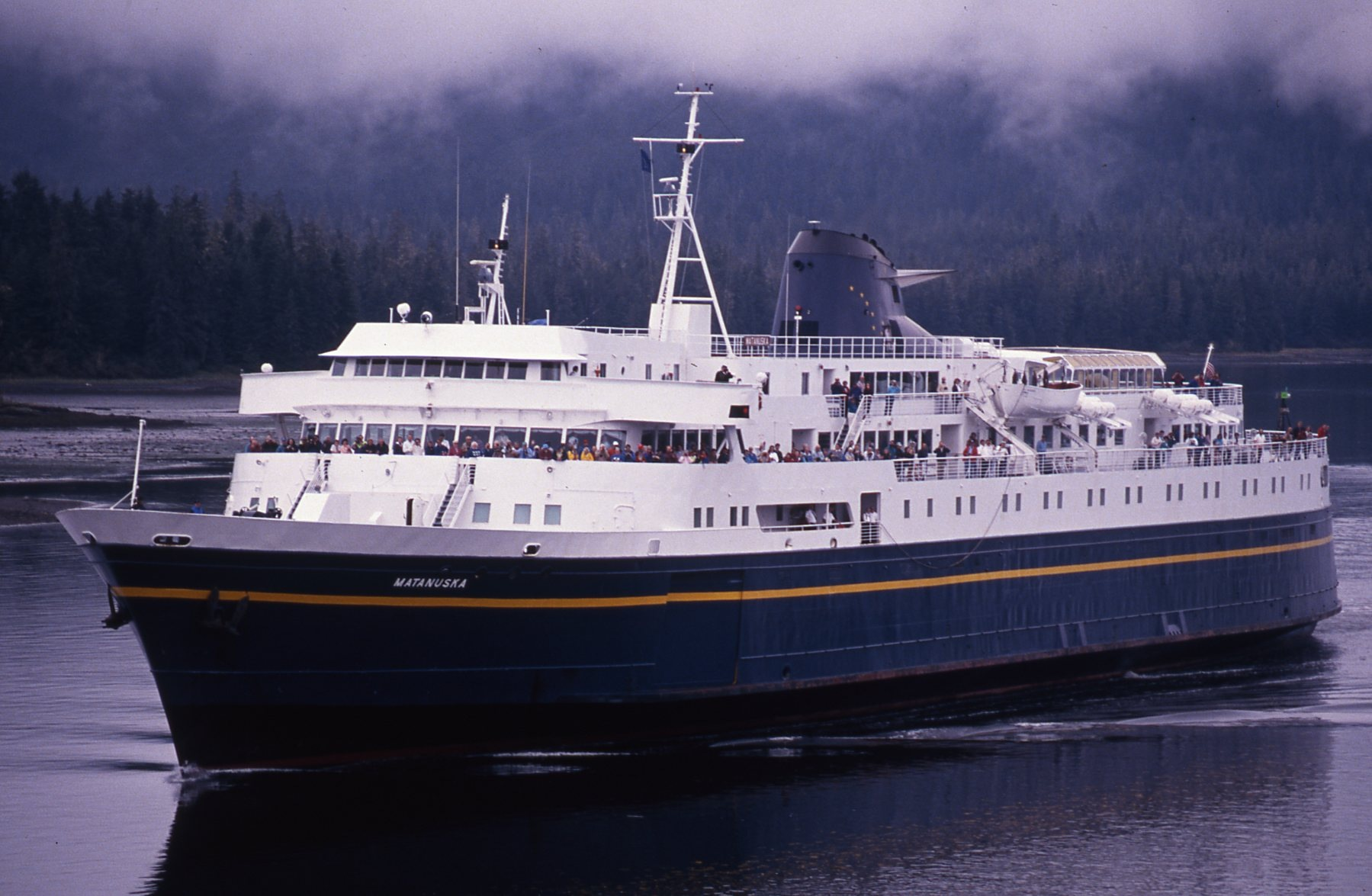 MV Matanuska heading south through Wrangell Narrows